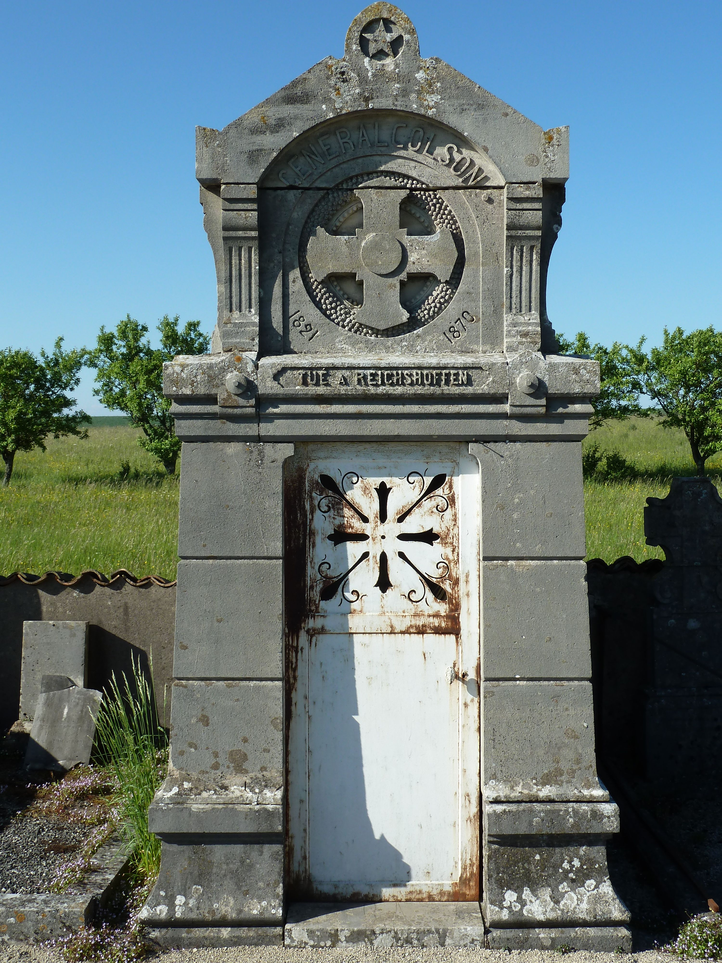 Grave of Joseph-Emile Colson in St-Aubin-sur-Aire (Meuse, France)